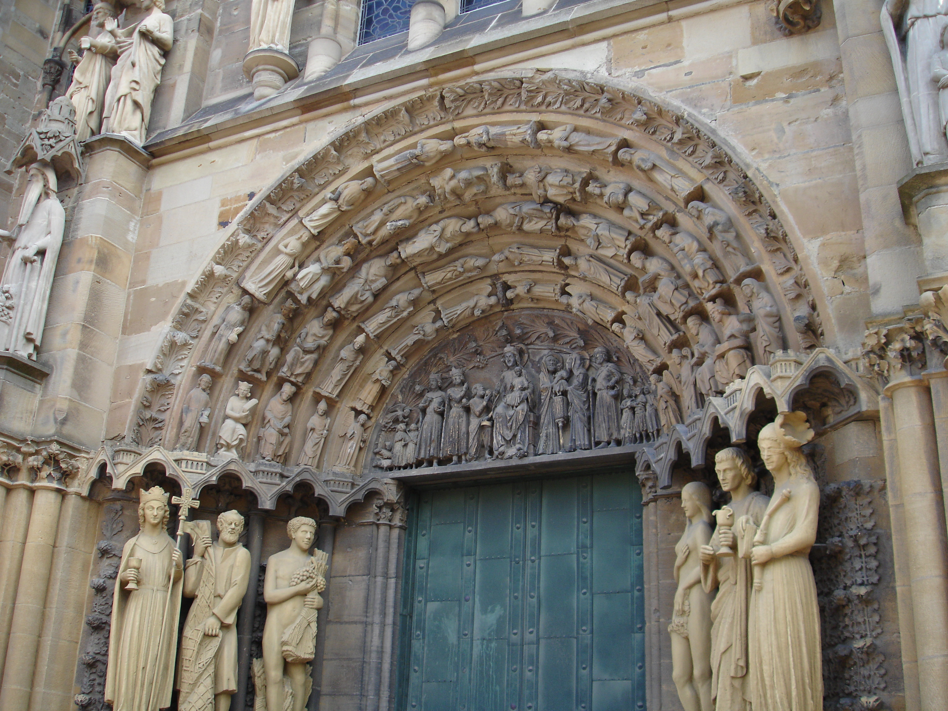 Trierer Dom